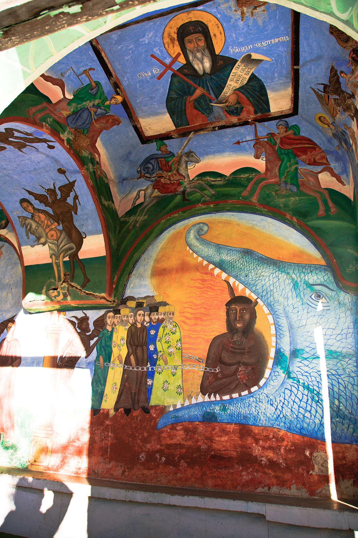 A fresco from the Churilovo monasteri. It's nearby the Churilovo village in Ograzhden mountain, south-west Bulgaria